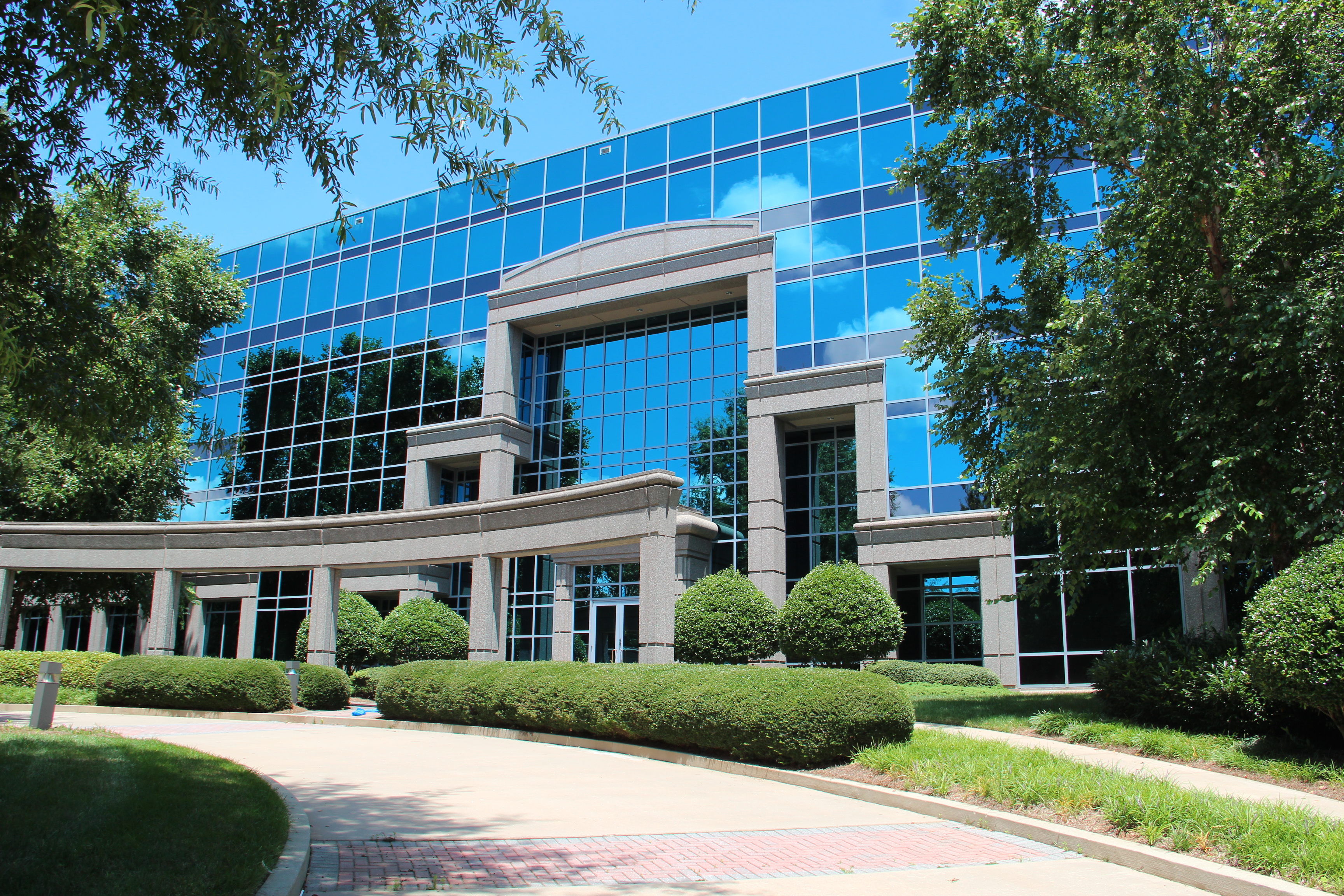 Building where the Johns Creek City Hall is located.